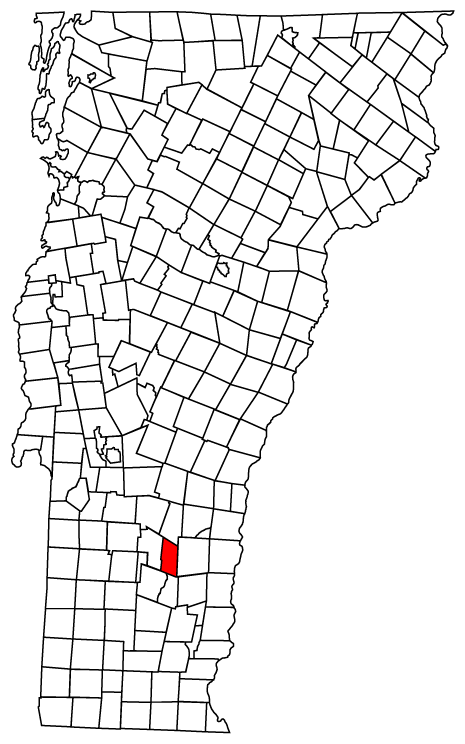 Map of Vermont towns with Andover highlighted